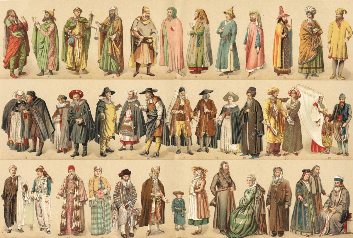 French Jews of the Middle Ages. From the 1901-1906 Jewish Ecyclopedia.